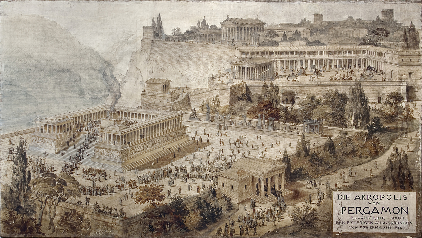 Reconstructed view of Acropolis of Pergamon by Friedrich Thierch - 1882. Original title "Die Akropolis von Pergamon, reconstruirt nach den bisherigen ausgrabungen".